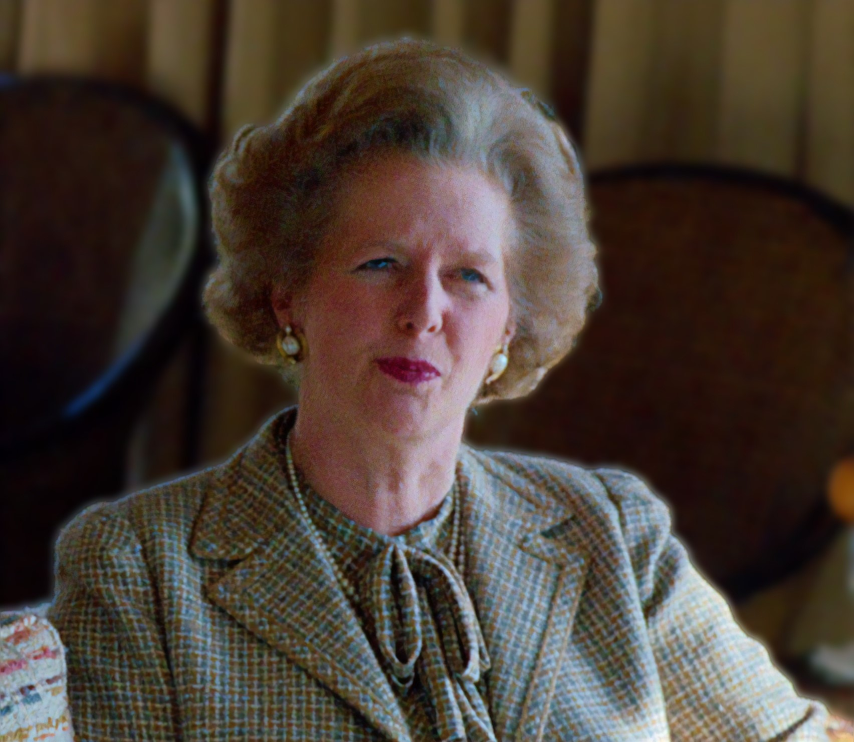 This image is a JPEG version of the original TIF image at File: Margaret Thatcher 1984.tif. However, any edits to the image should be based on the original TIF version in order to prevent generation loss, and both versions should be updated. Do not make edits based on this version. This is a retouched picture, which means that it has been digitally altered from its original version. Modifications: Resample. Modifications made by AlbanGeller.